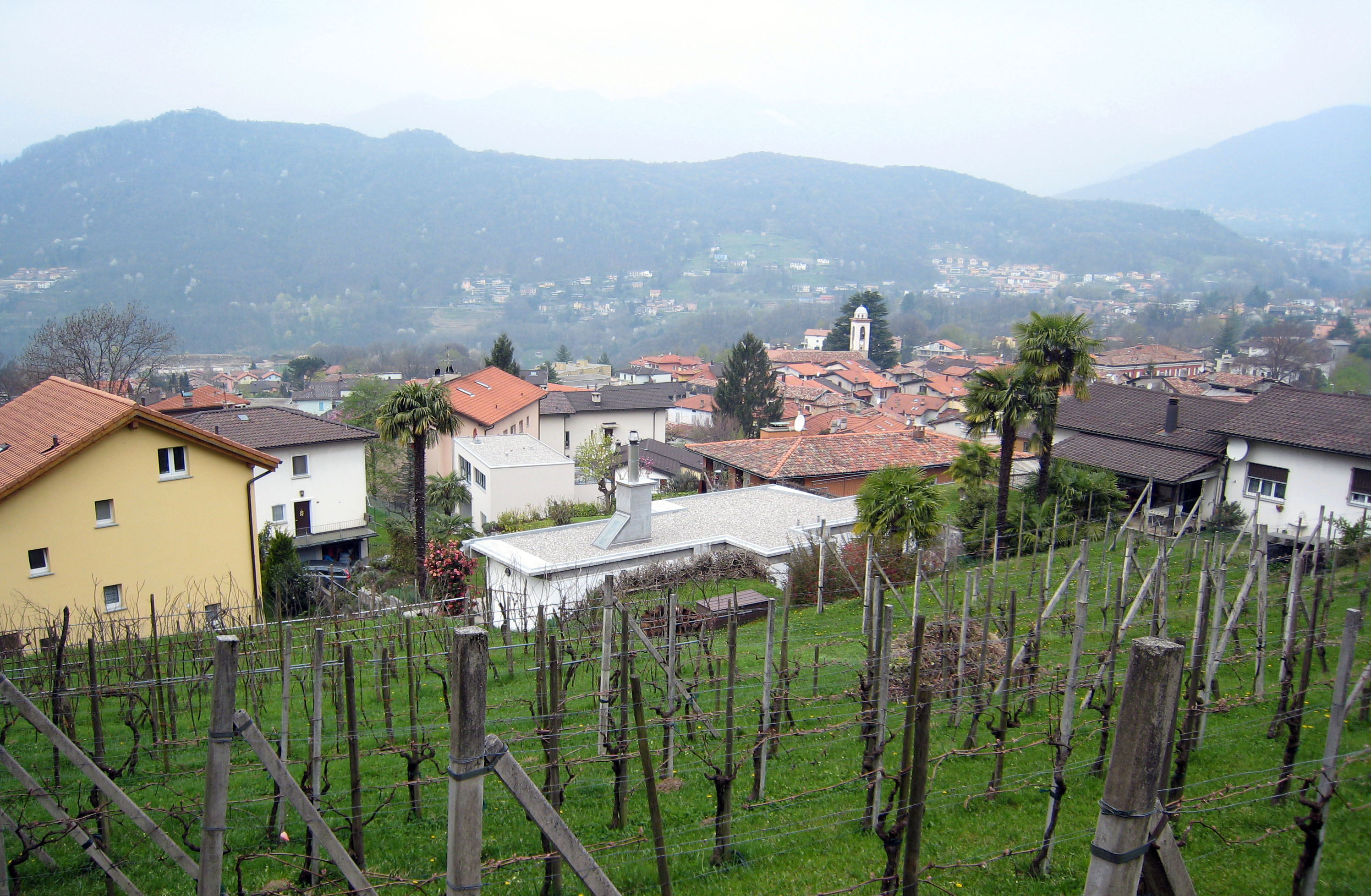 Cadro, a municipality in the district of Lugano in the canton of Ticino in Switzerland.